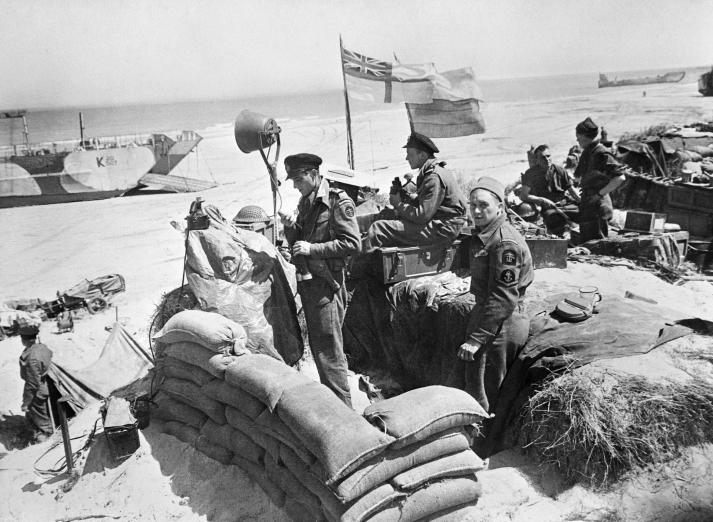 A beach party from the Royal Naval Commandos at Normandy during the Second World War. The RN Commandos carried out tasks of organising and controlling the beachhead